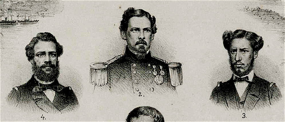 Heroes of the Passage of Humaitá according to Semana Illustrada. 2. Delfim Carlos de Carvalho (divisional commander). 4. Arthur Silveira da Motta; (who commanded the first vessel to pass Humaitá). 3. Antonio Mauriti (who ignored the order to turn back).